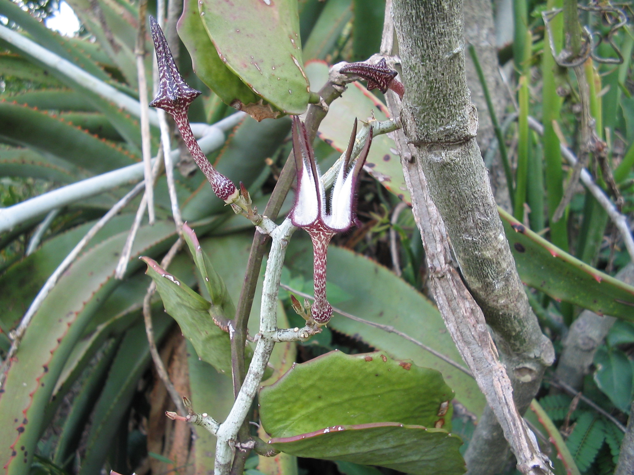 Ceropegia stapelliforms subspecies serpentina from Ingwavuma, South Africa. Photo taken by Cris Higham.